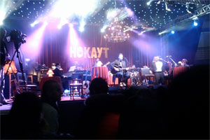 Concert at Metropolis Arena 28.12.2011